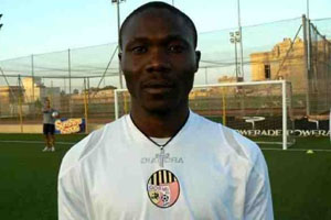 Picture of Alfred Effiong.